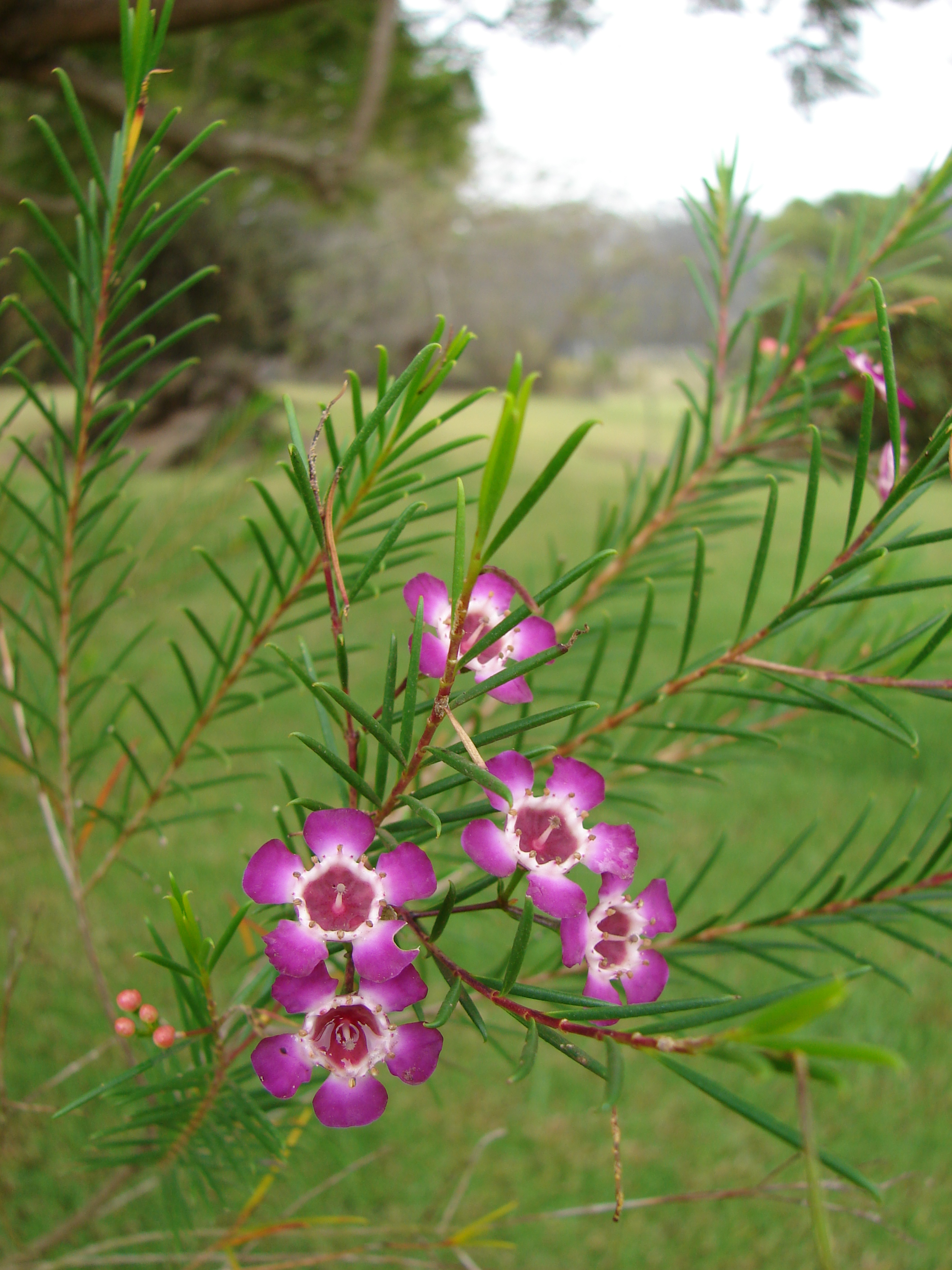 Chamelaucium uncinatum (leaves and flowers). Location: Maui, Kula